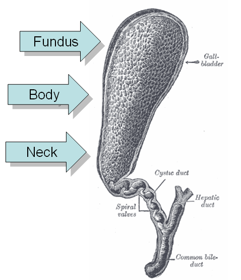 The gall-bladder and bile ducts laid open. (Spalteholz.)